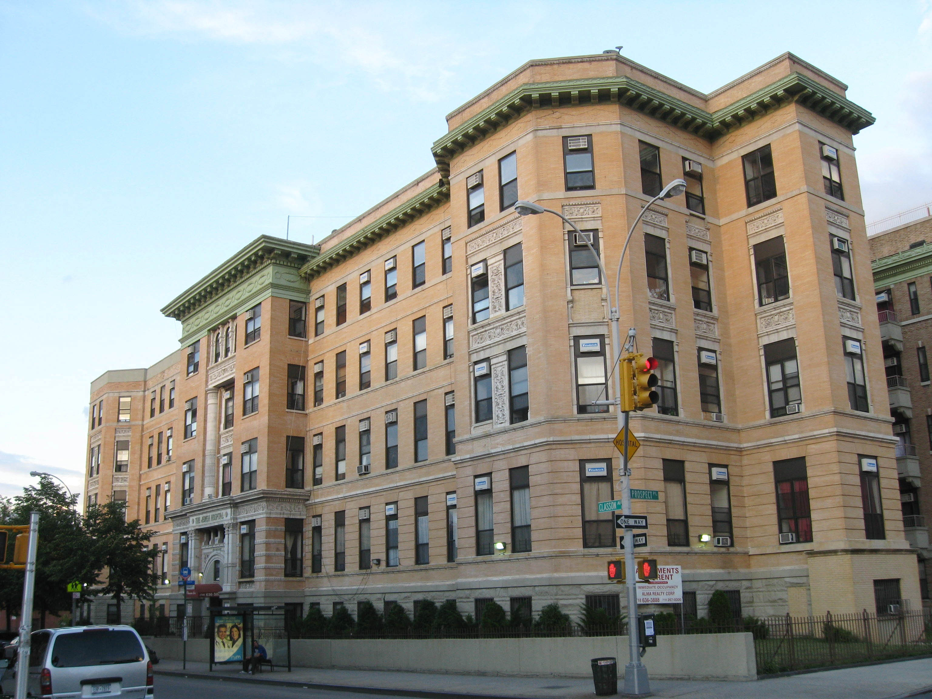 Looking northeast across Classon Avenue and Prospect Place in Crown Heights, Brooklyn at apartment building formerly housing The Jewish Hospital of Brooklyn, on a cloudy late afternoon